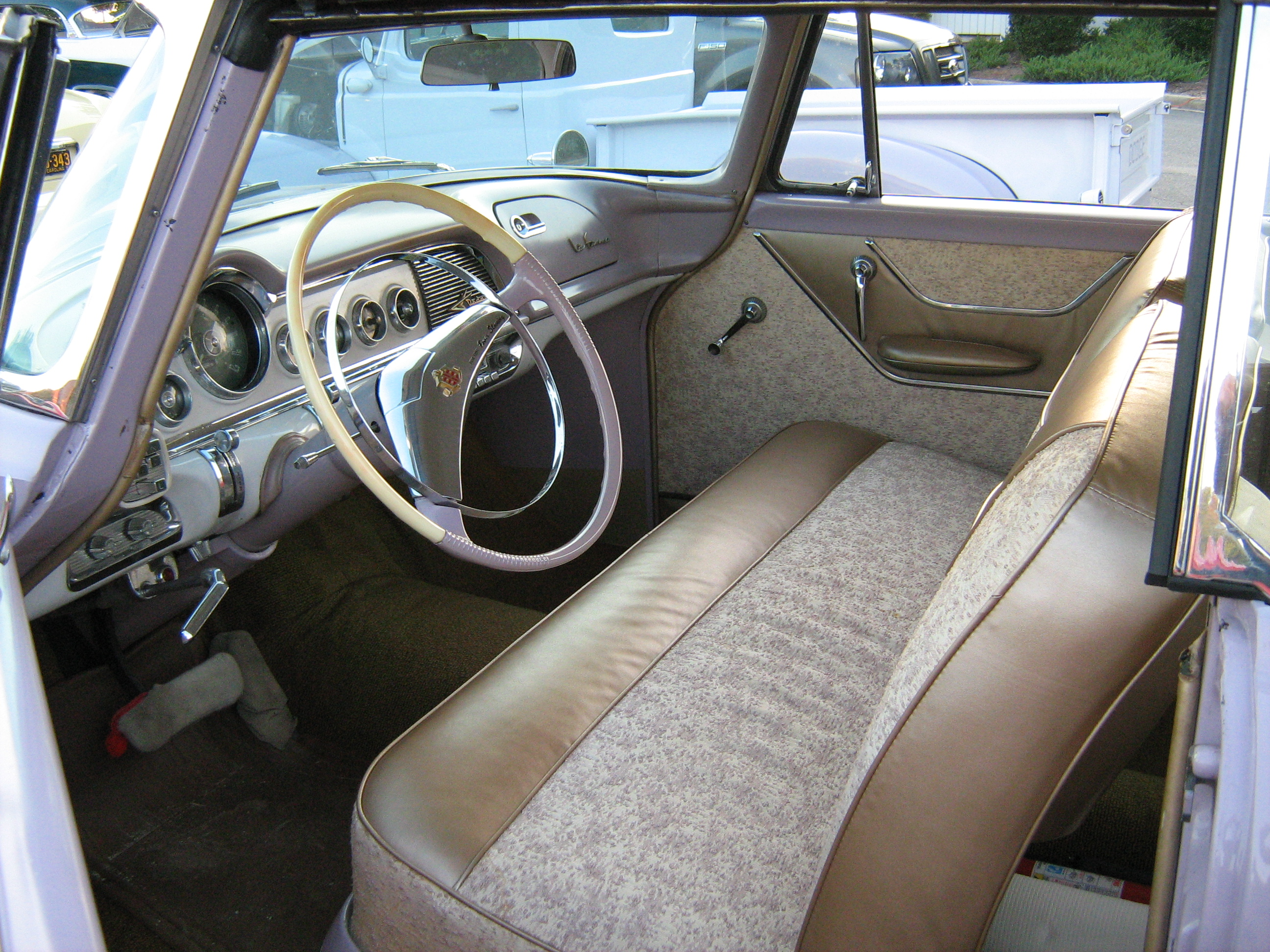 1956 Dodge La Femme - interior view